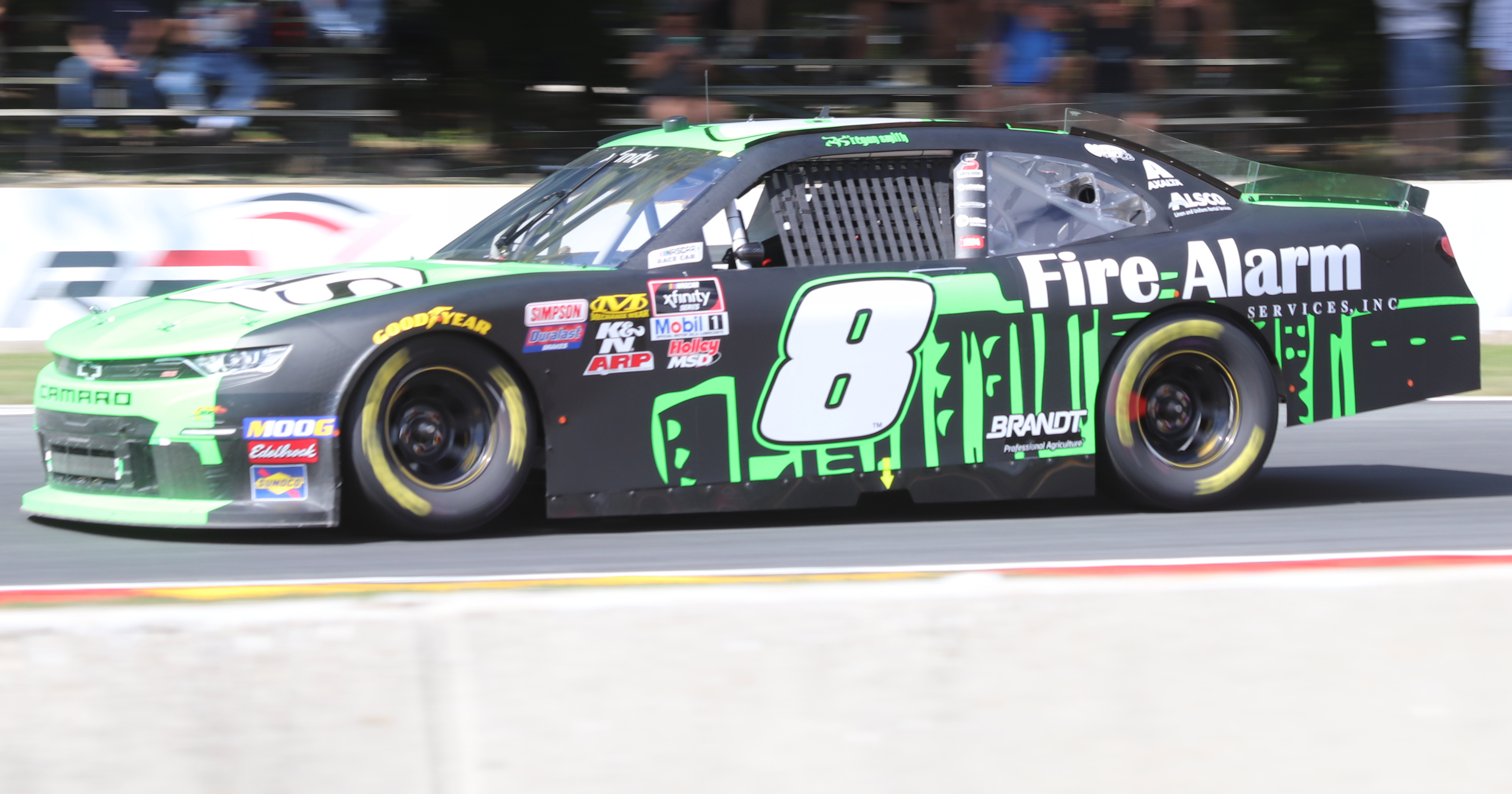 The #8 Chevrolet Camaro of Regan Smith at the NASCAR CTECH 180.